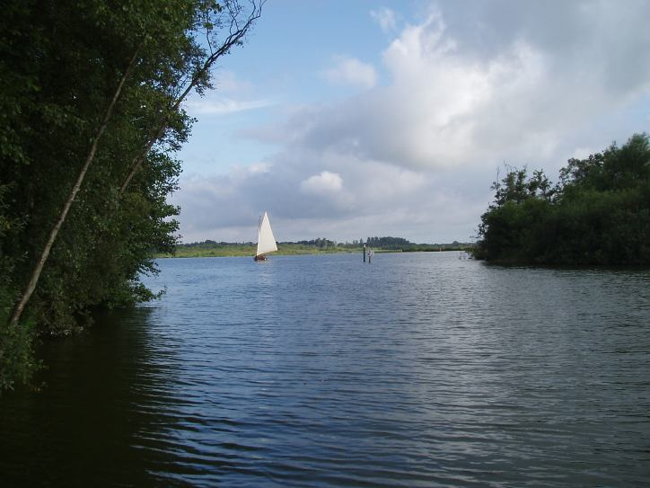 Barton Broad, Norfolk, United Kingdom. August 2005 Day, taken from the southern end. By Chris Hainstock